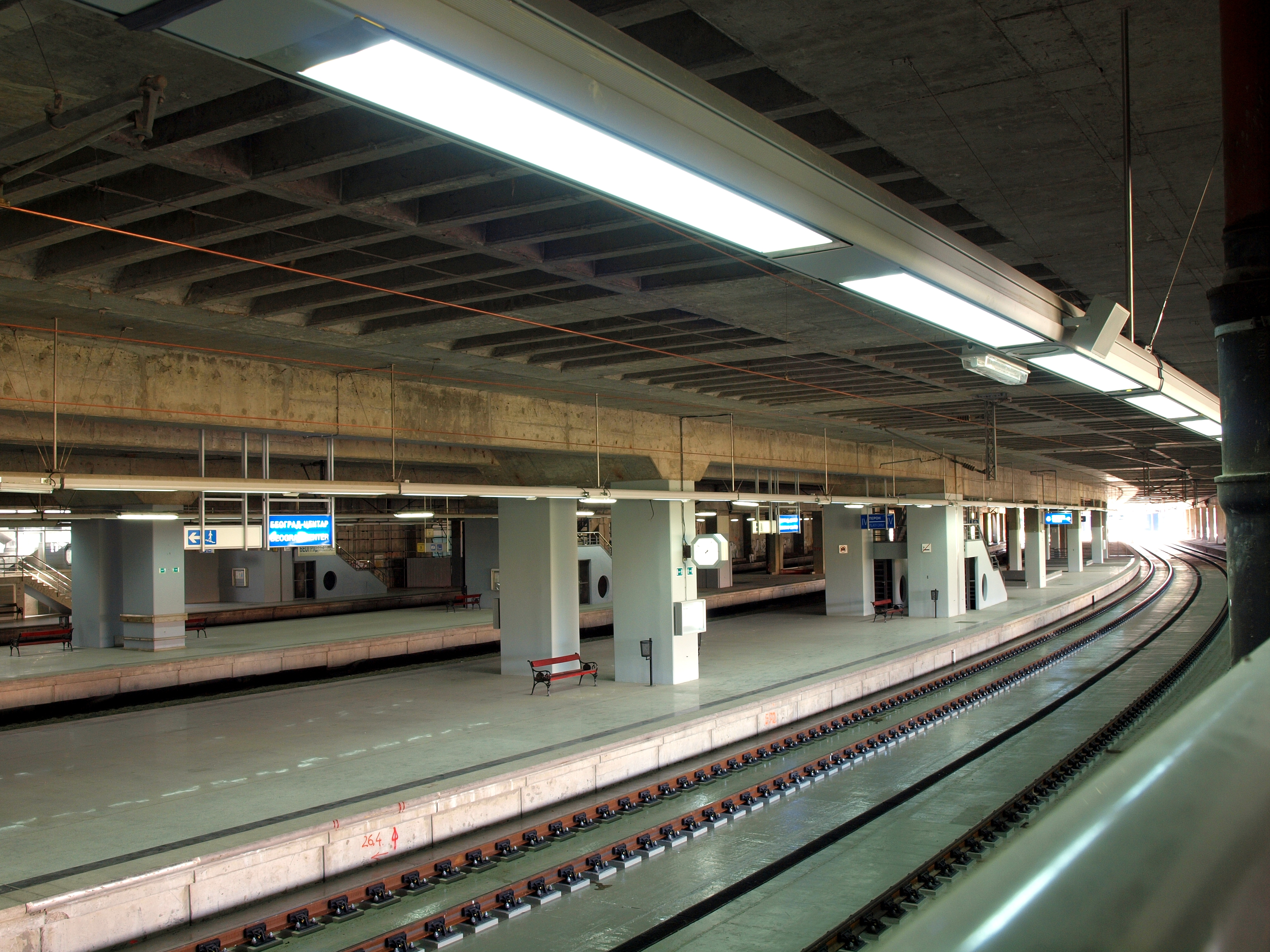 Blue train, Prokop